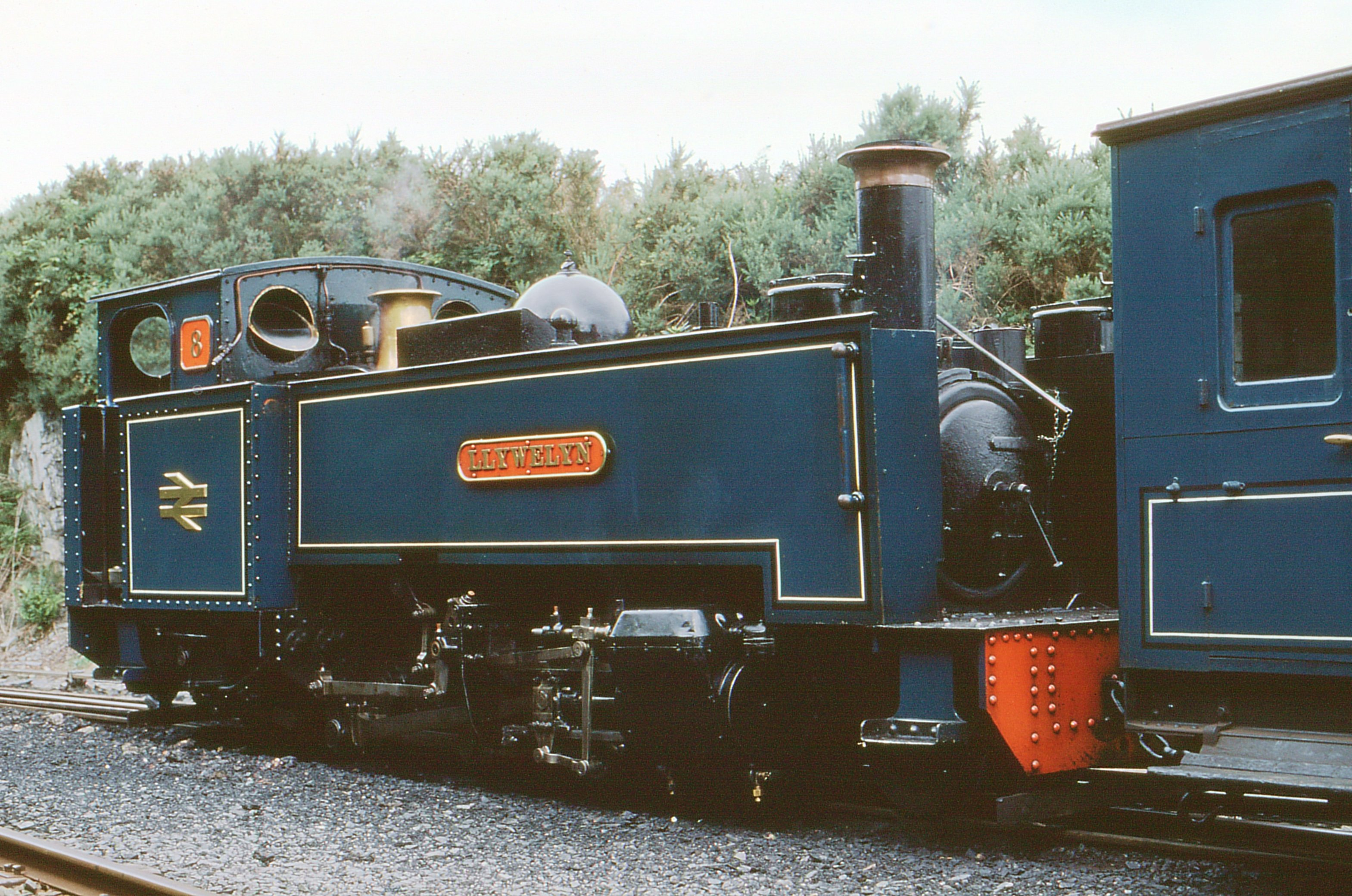 VOR 8 Llywelyn in BR blue, taken at Devil's bridge station. Camera: Olympus OM1 35mm SLR.